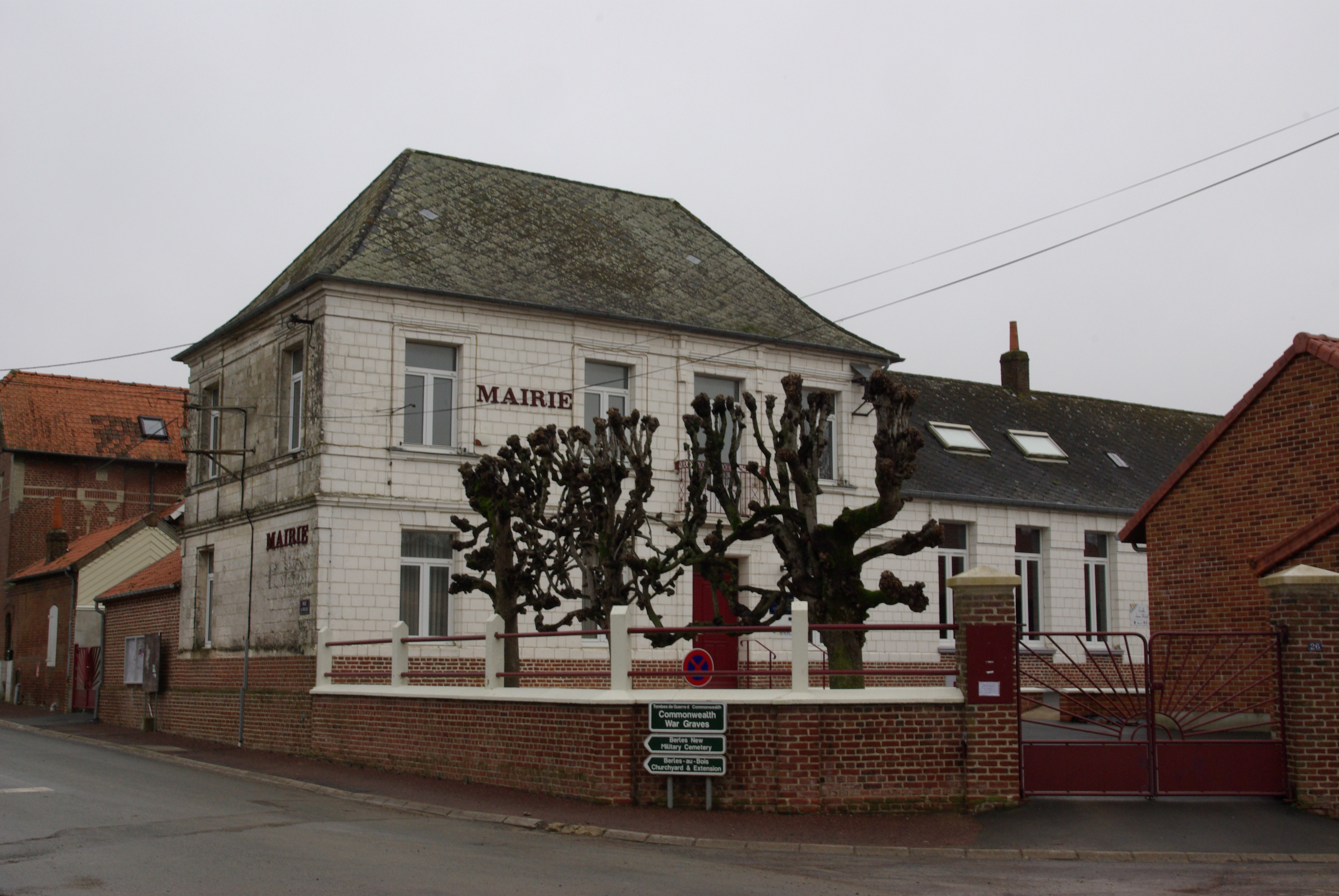 City Hall of Berles-au-Bois